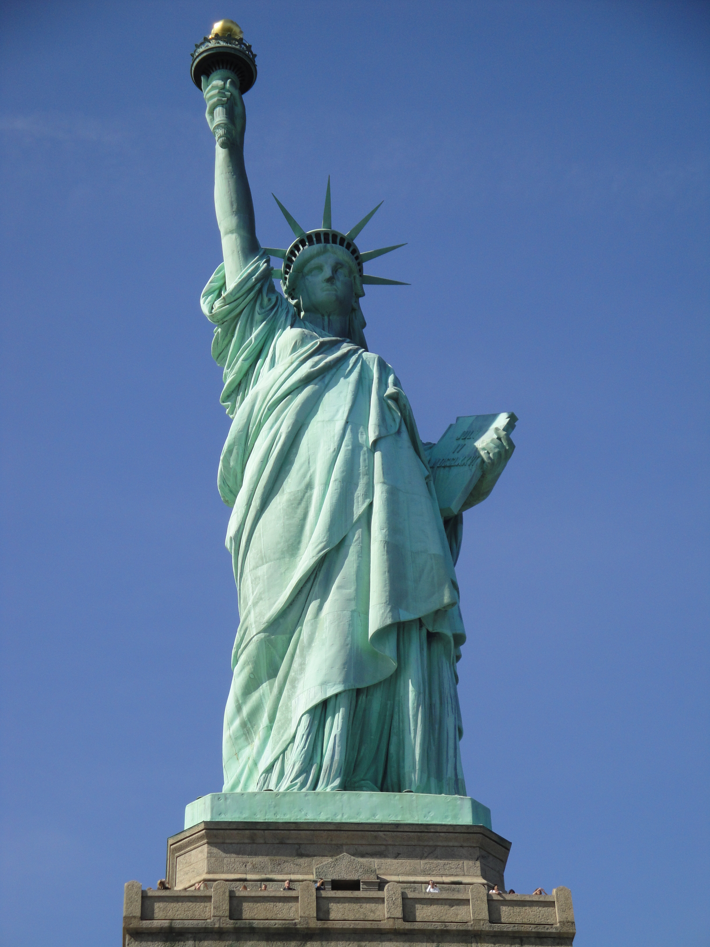 If you like this picture visit my travel blog Travel Tipsor to conect with me and my blog :). This is picture of Statue of Liberty in New York City USA